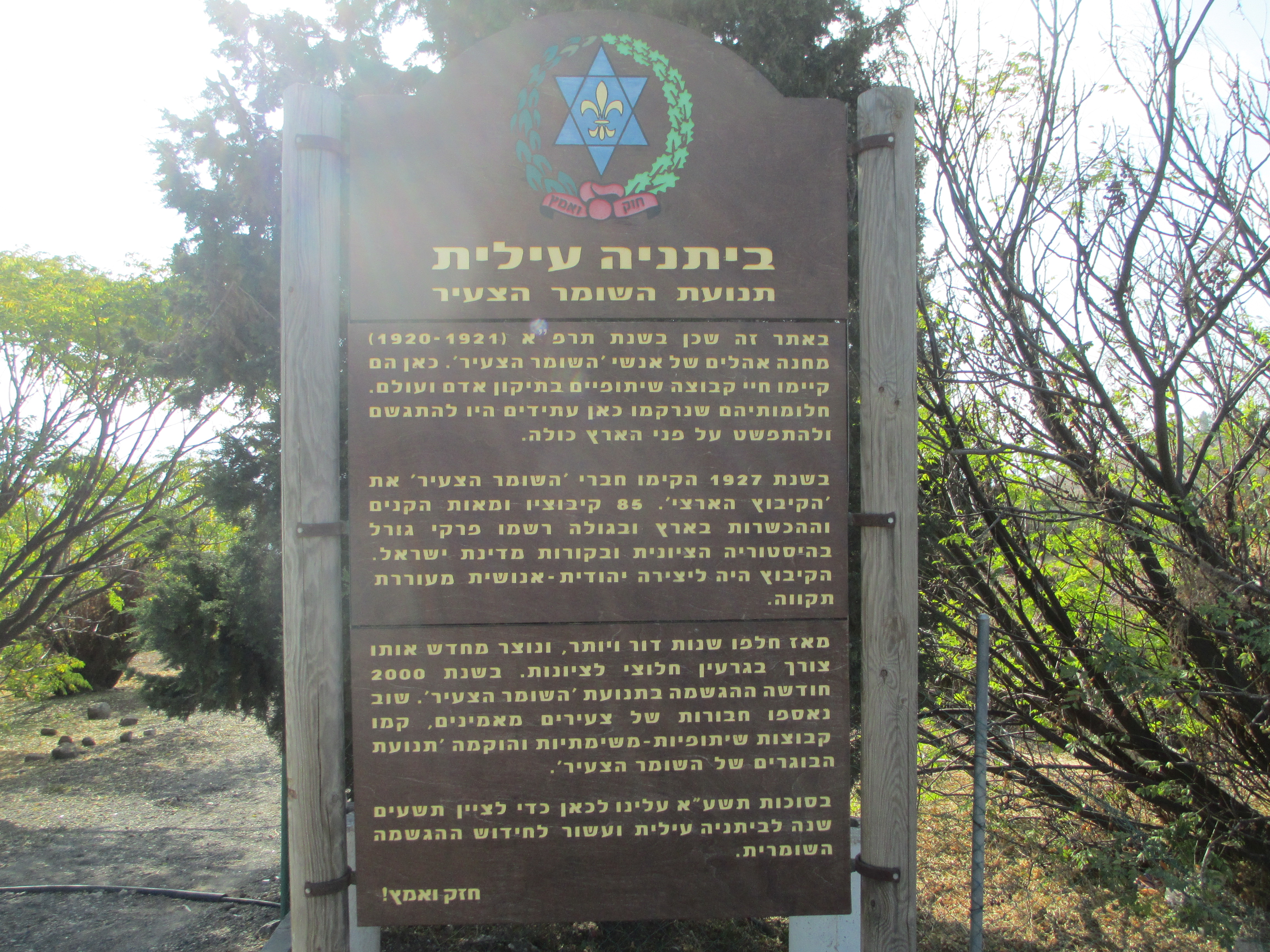 Bitanya Illit